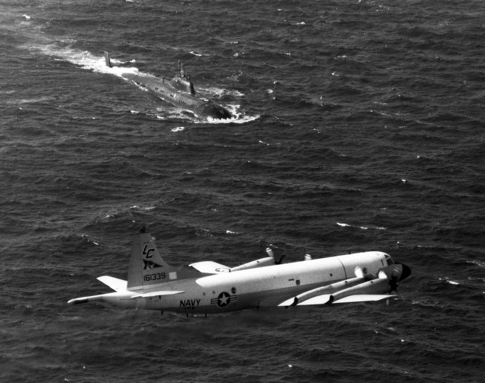 A U.S. Navy Lockheed P-3C Orion (BuNo 161339) from the Patrol Squadron EIGHT (VP-8) Tigers flying over a Soviet Victor III-class submarine, in 1985. The submarine was leaving Hammamet, Tunisia.